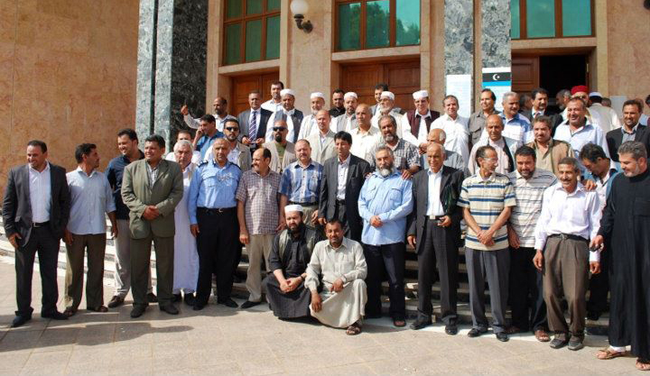 Meeting in Al Bayda of the elders of the people of Bayda with the elders of Misurata — to thank Bayda people for the support during the Battle of Misurata .